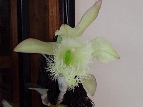 A work released per the GNU Free Documentation License by: Martín Javier Battiti de Tegucigalpa, Honduras